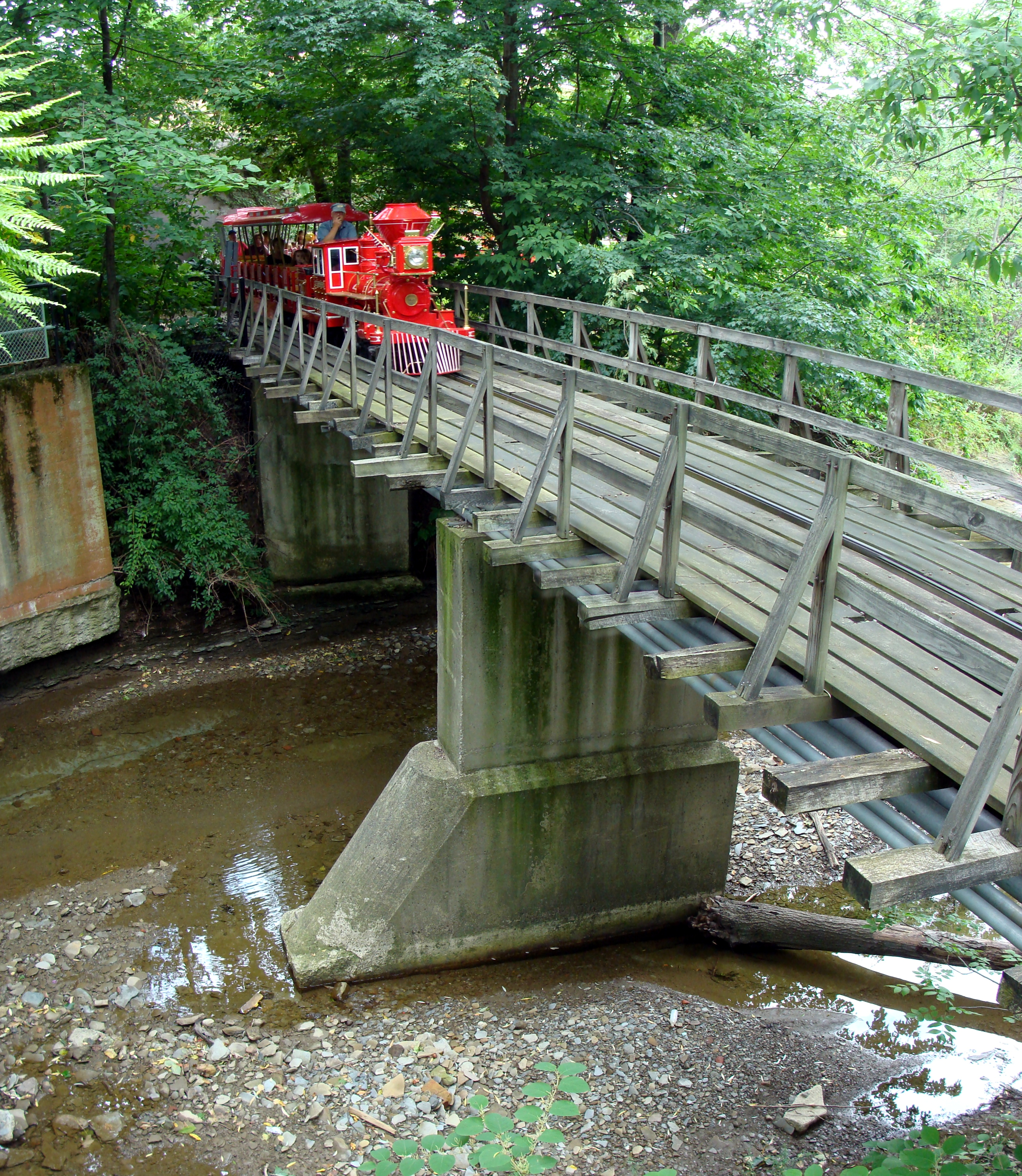 One of the bridges for the Erie Zoo train over the Mill Creek. Originally two horizontal photos. This panoramic image was created with Autostitch (stitched images may differ from reality).